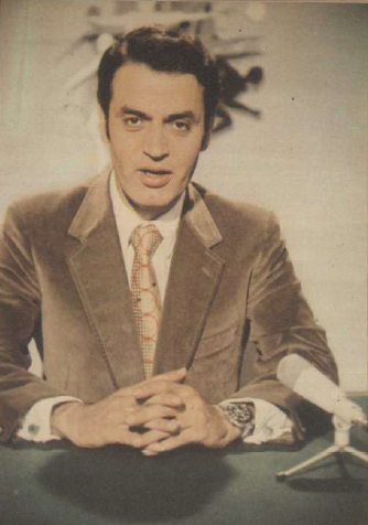 Habibullah Roshanzadeh (Rowshanzada) a presenter of National Iranian Radio and Television